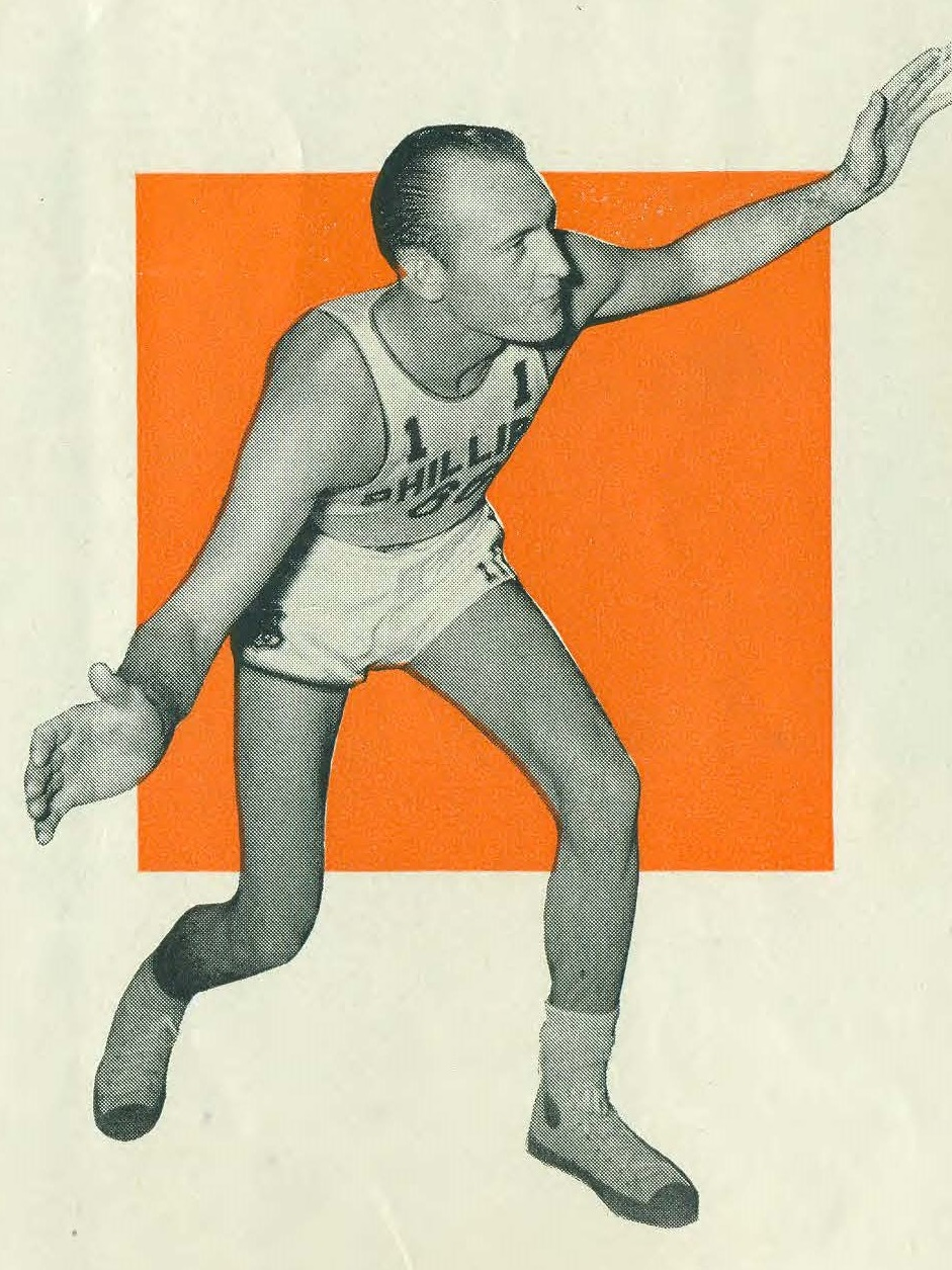 American basketball player RC Pitts with the Phillips 66ers c. 1946